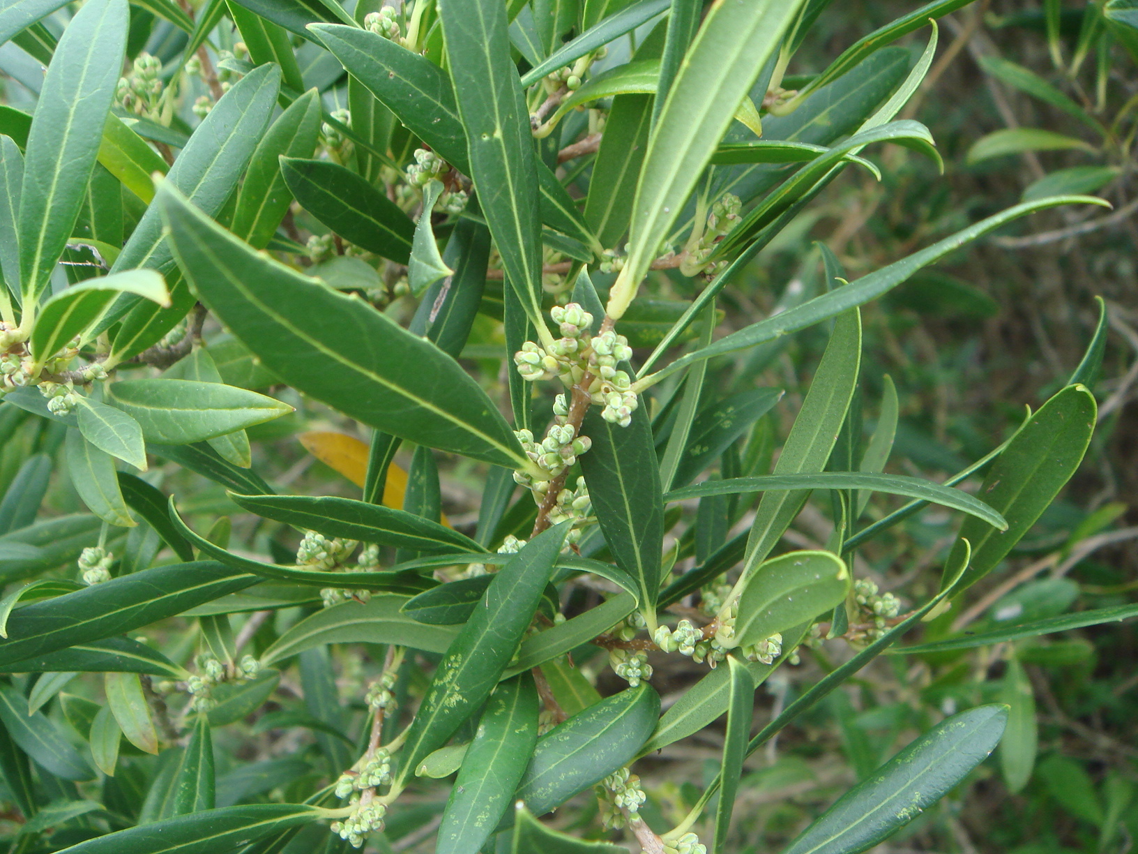 (Phillyrea angustifolia) , province of Cádiz, Spain.